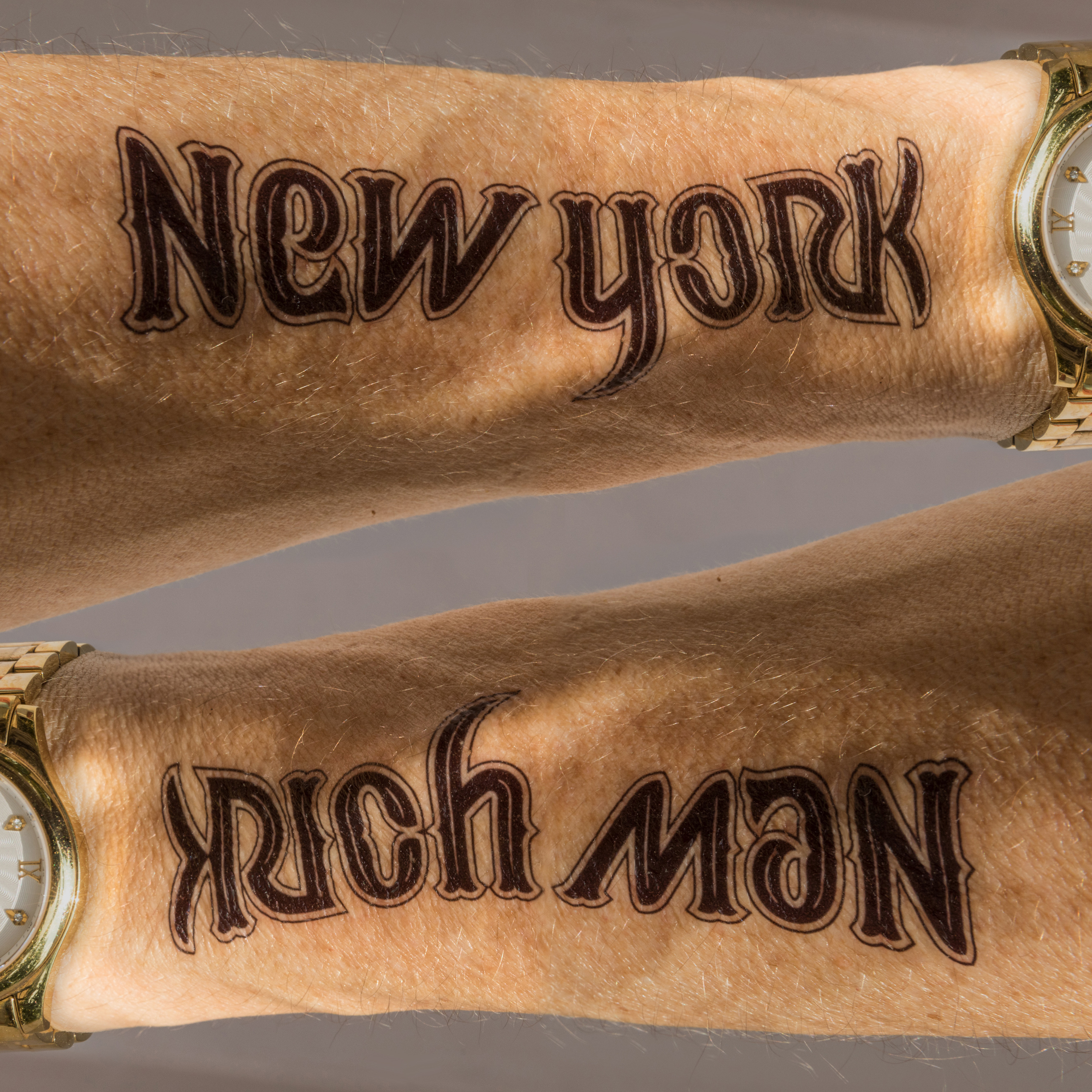 Ambigram tattoo New York / Rich Man on a male forearm. 180° rotational symmetry (upside down words). New York City has a high degree of income disparity, as all large cities. As of 2017, New York City was home to the highest number of billionaires of any city in the world at 103, including former Mayor Michael Bloomberg. New York also had the highest density of millionaires per capita among major U.S. cities in 2014, at 4.6% of residents. New York City is one of the relatively few American cities levying an income tax (currently about 3%) on its residents. Ambigram designed by Basile Morin. Decal-style temporary tattoo.